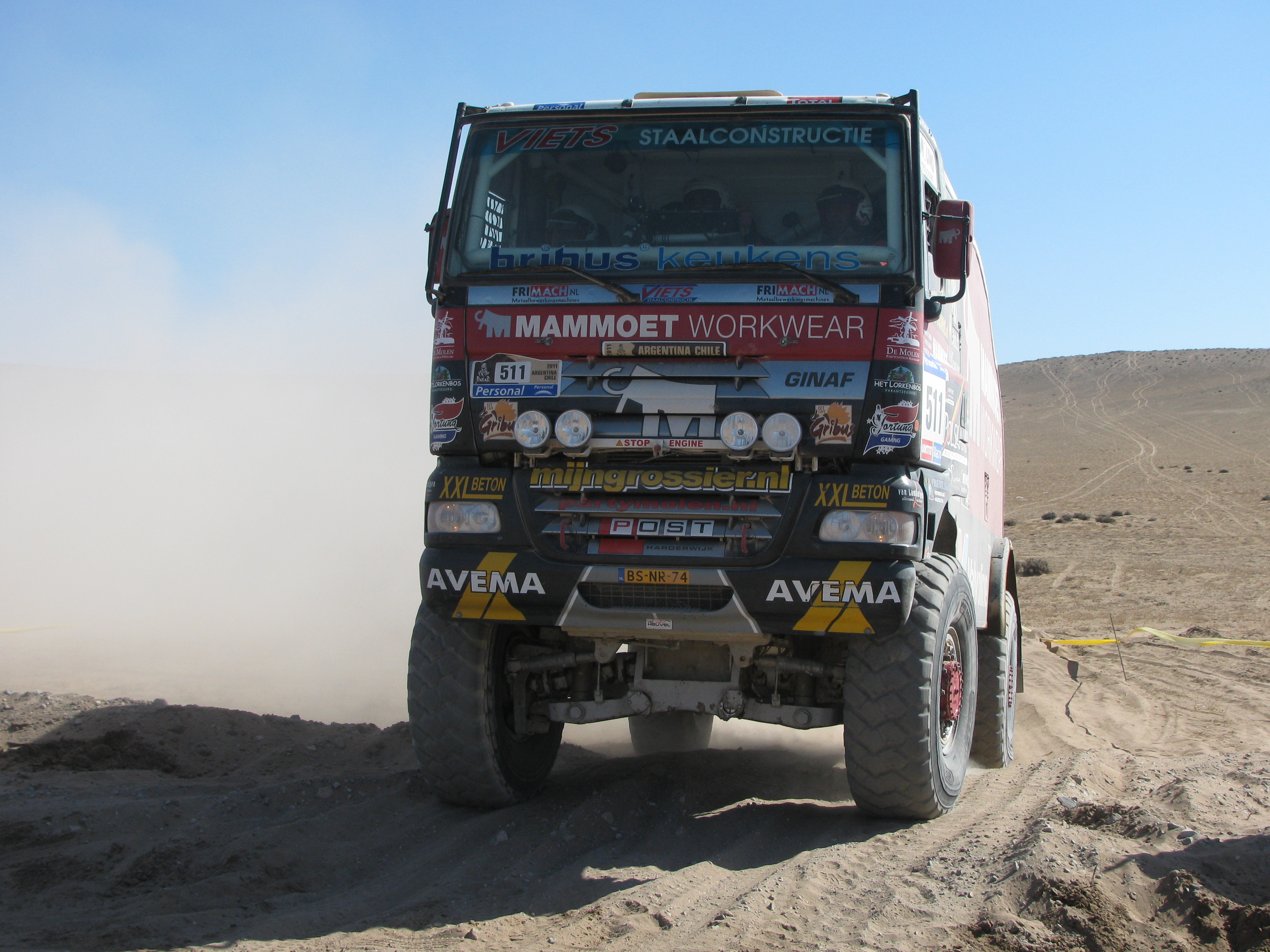 Ginaf X 2222, Dakar 2011 Copiapó, MARTIN VAN DEN BRINK (NLD) MARTIEN HOL (NLD) PETER WILLEMSEN (BEL)